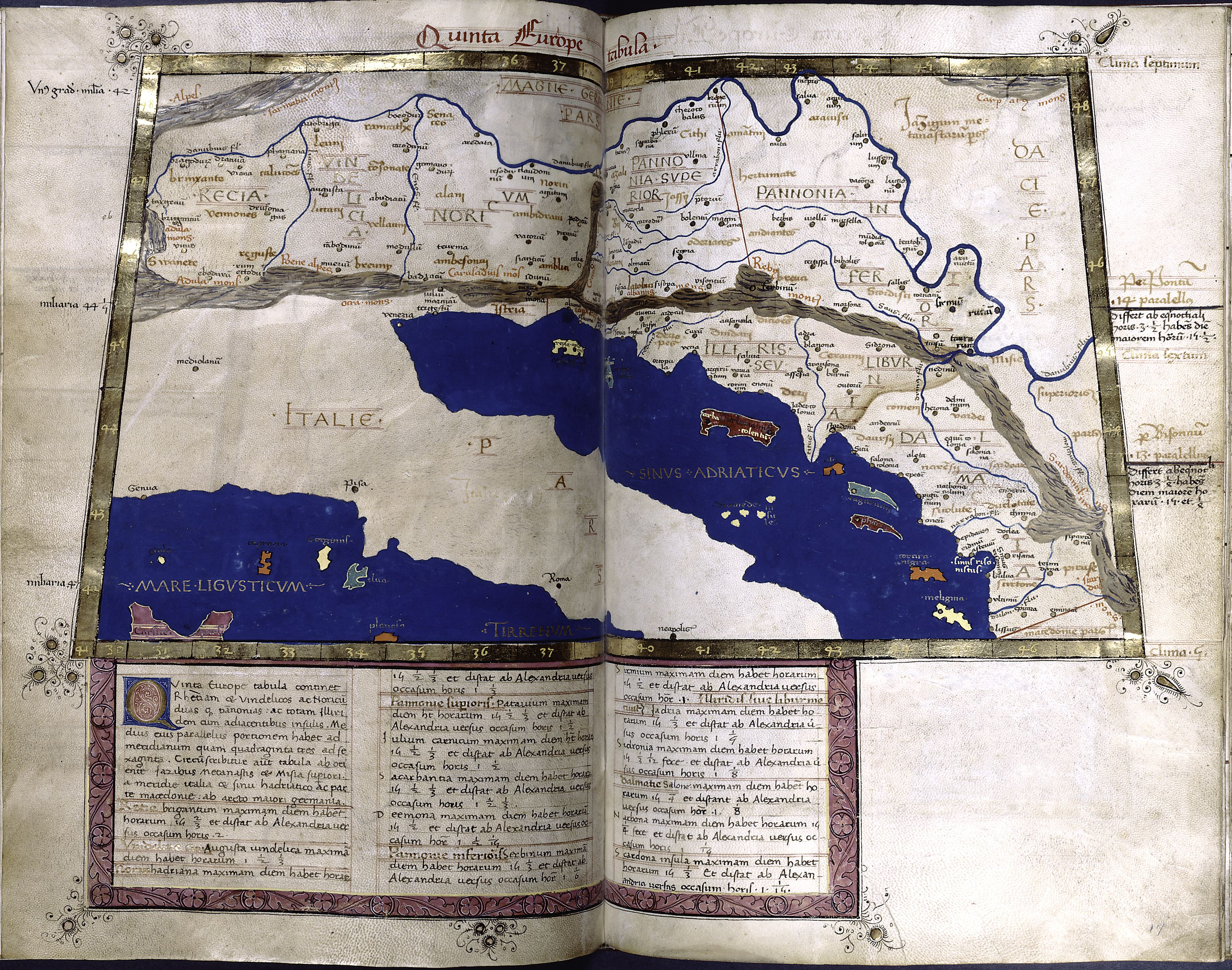 The 5th European Map (Quinta Europae Tabula) from from a medieval edition of Ptolemy's Geography, depicting Pannonia, Noricum, and Illyricum.